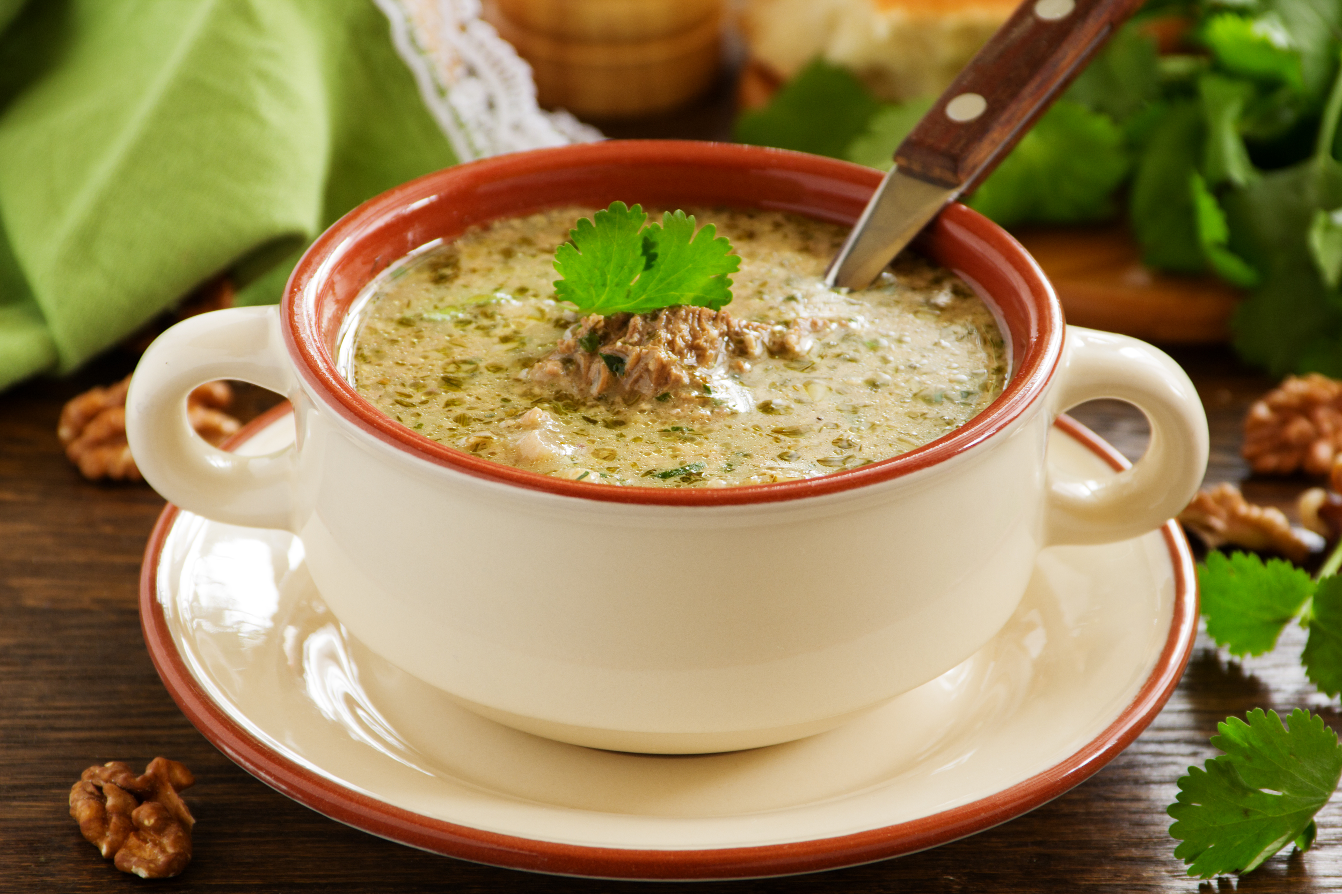 Kharcho soup of beef with walnuts and rice. Georgian cuisine.